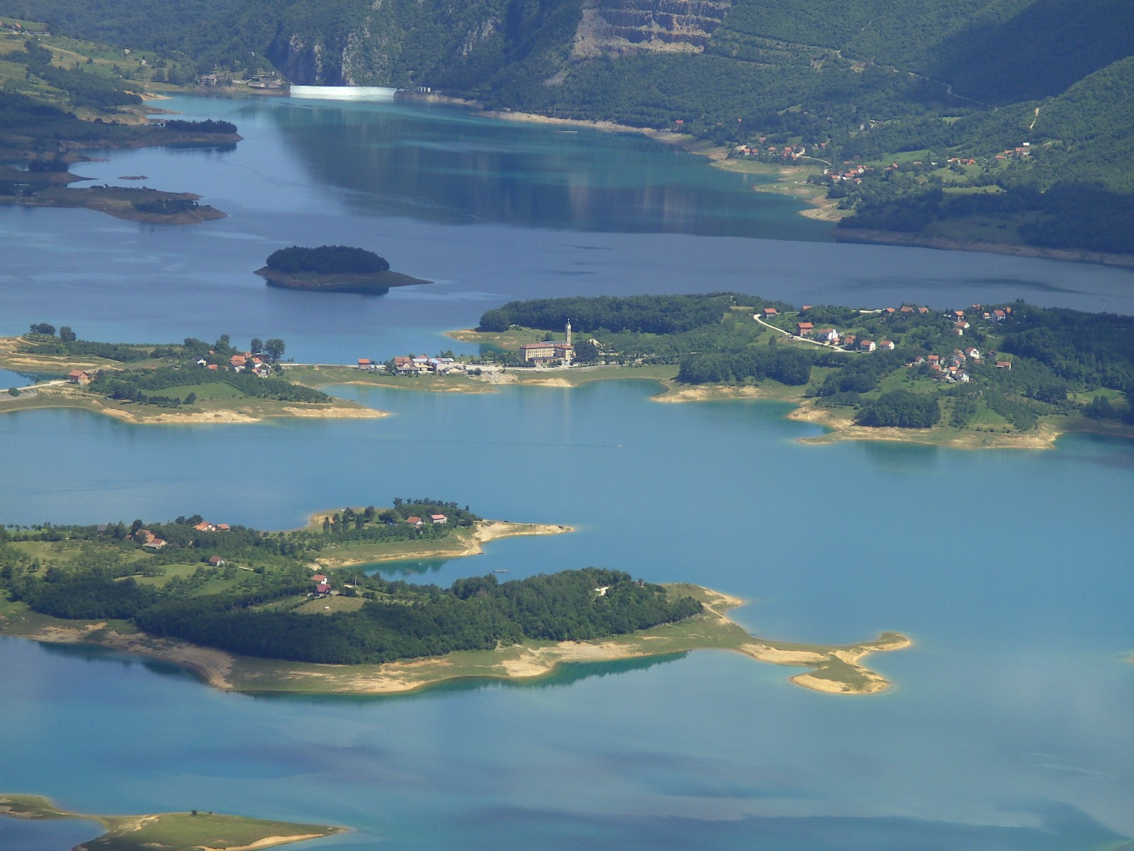 Rama lake in Bosnia and Herzegovina